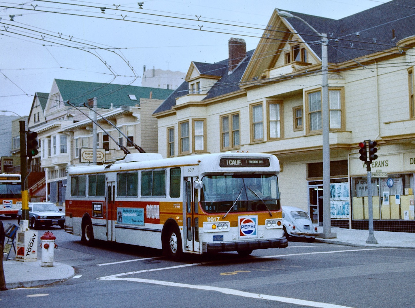 San Francisco Muni trolleybus 5017, a 1976 Flyer E800, about to turn onto Presidio Avenue from Sacramento Street, inbound on route 1-California, in 1982. Its rollsign reads "1 Calif. [to] Presidio Ave.", which means it was ending its trip here and heading for Muni's nearby Presidio garage.